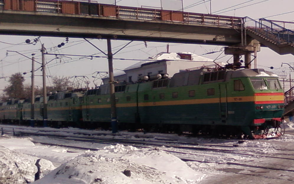 Electric locomotive ChS7-001 in locomotive depot at railroad station "Chelyabinsk-Main". This is first locomotive of this model, produced 1983 in Czechoslovakia.